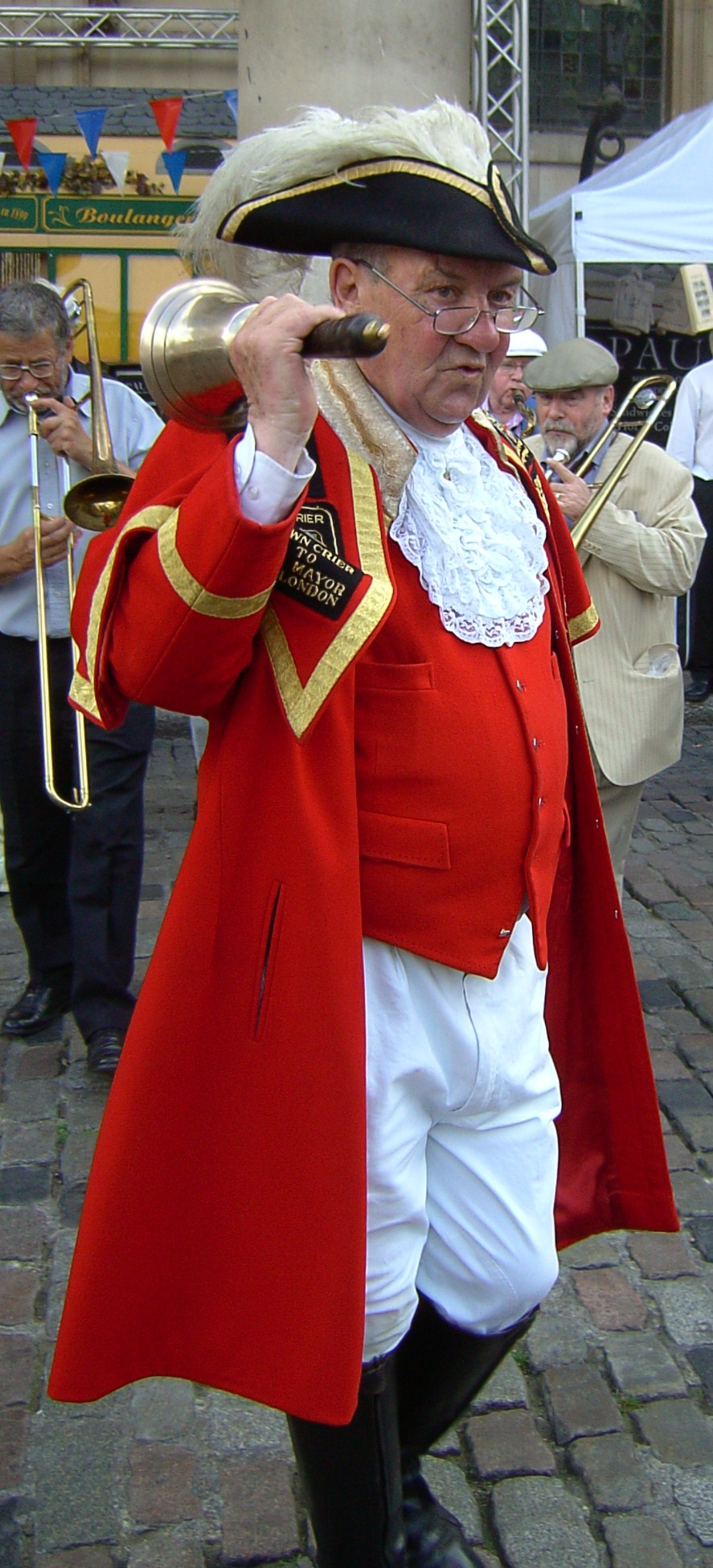 Peter Moore, Town Crier to the Mayor of London and The Greater London Authority.